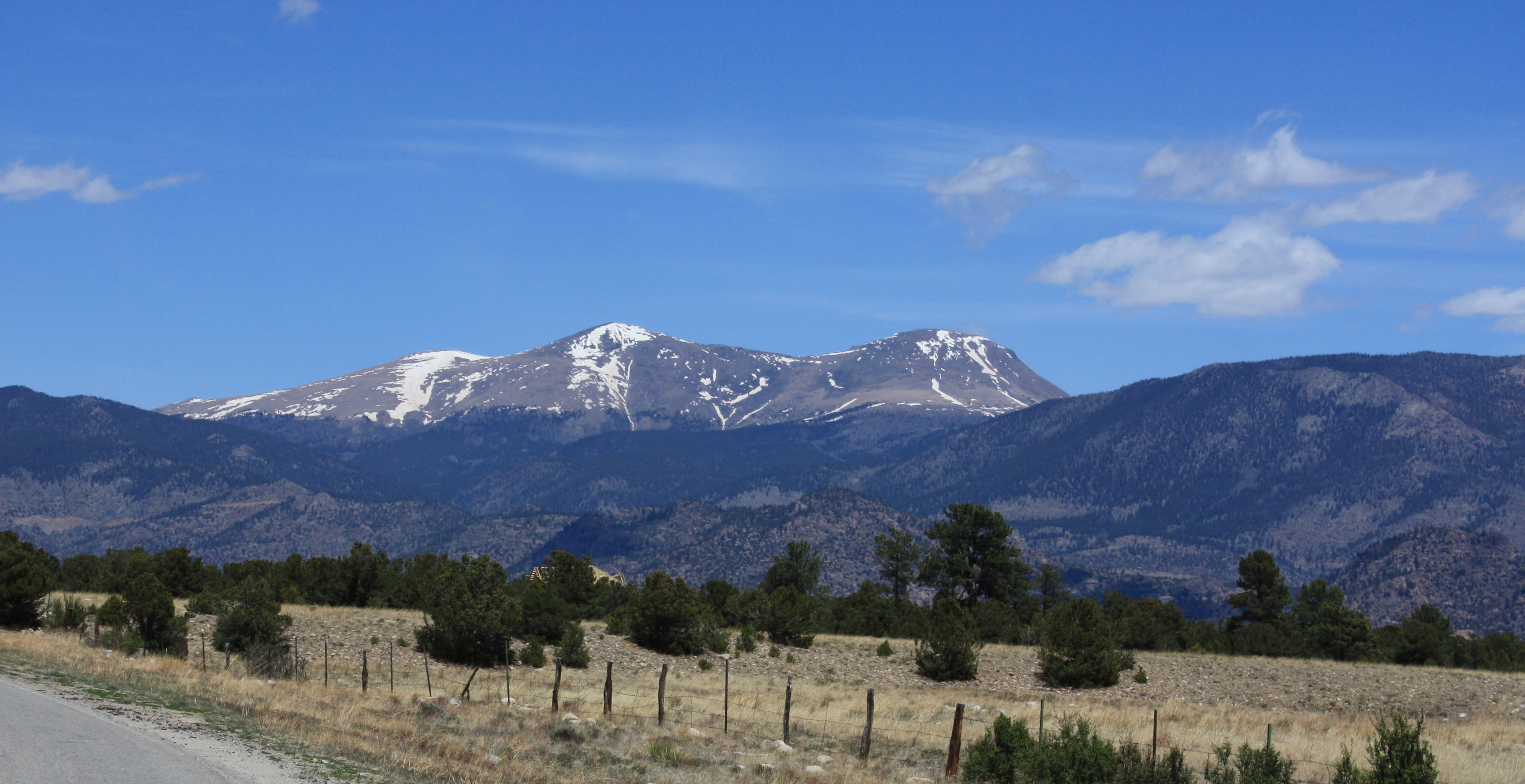 Taken from just outside of Buena Vista. IMG_2278